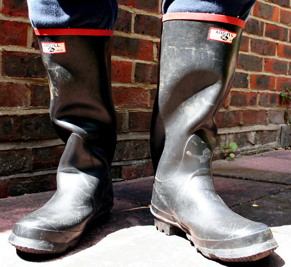 Argyll wellington boots manufactured by the Hunter Rubber Boot Ltd